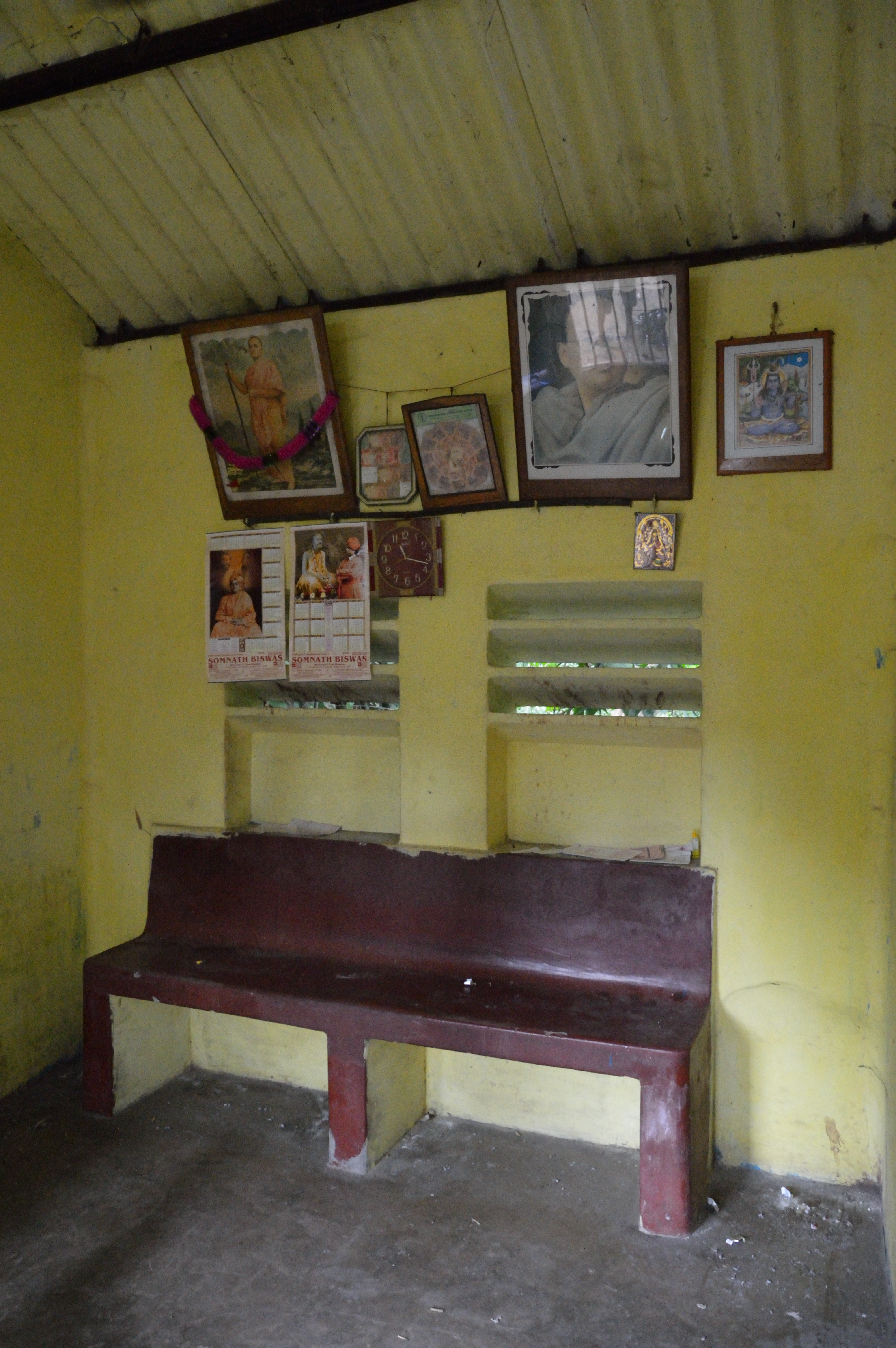 Photographed in Howrah.